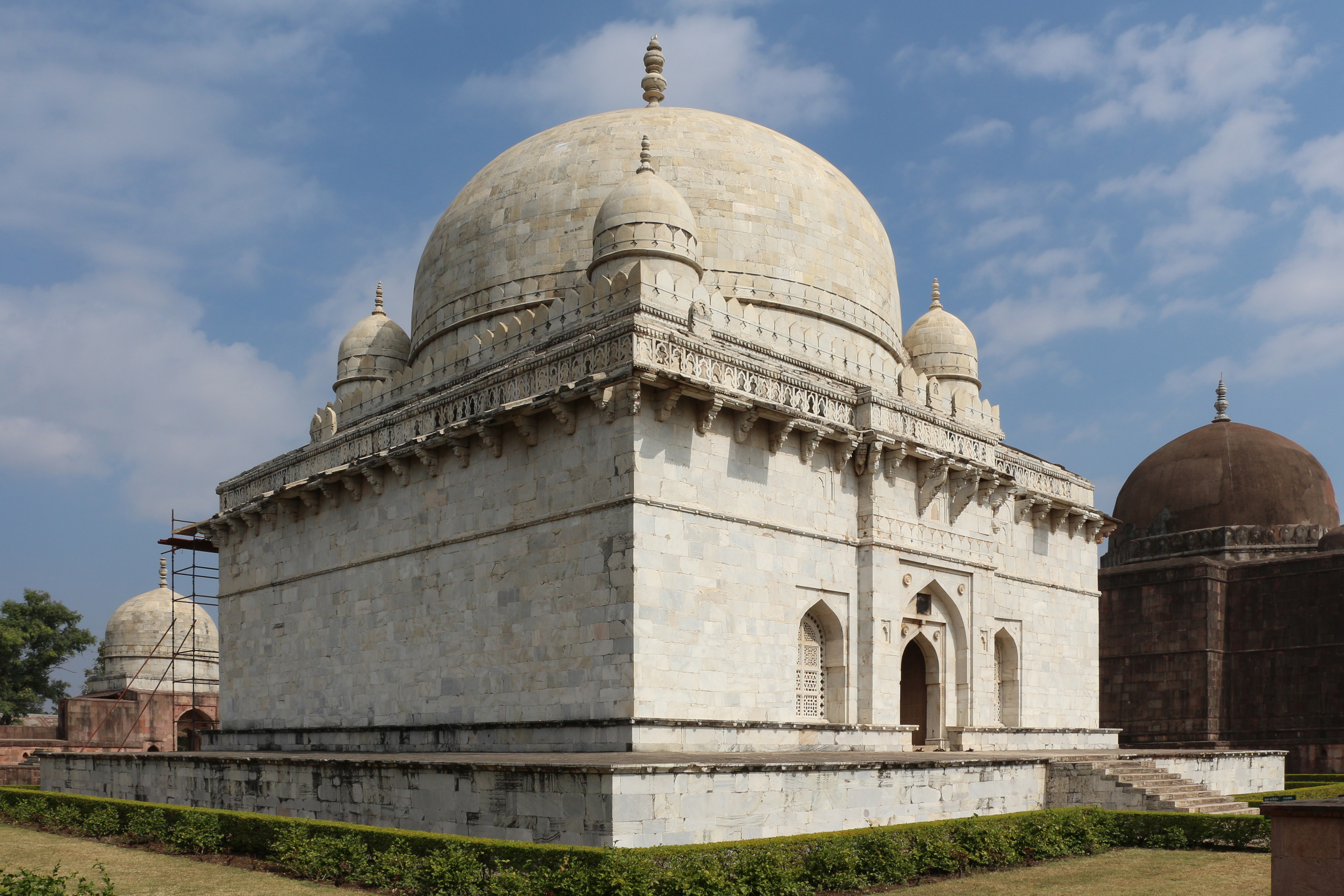 Mausoleum of Hoshang Shah, Mandu, India